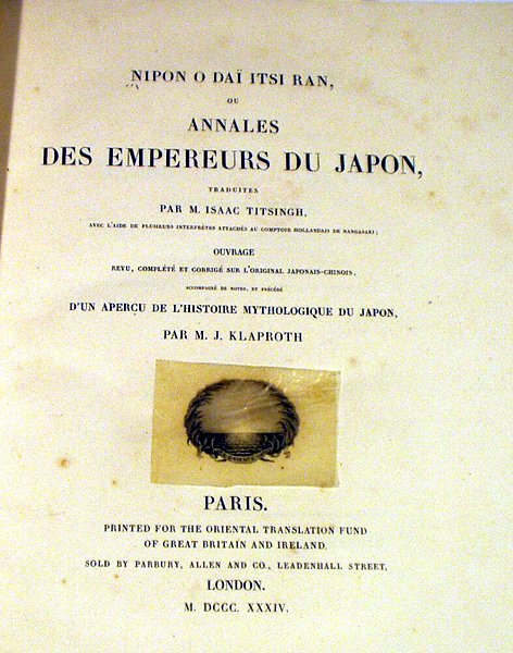 Title page of French translation of Nihon odai ichiran (日本王代一覧 "Table of the rulers of Japan"); Annales des empereurs du Japon, tr. par M. Isaac Titsingh avec l'aide de plusieurs interprètes attachés au comptoir hollandais de Nangasaki; ouvrage re., complété et cor. sur l'original japonais-chinois, accompagné de notes et précédé d'un Aperçu d'histoire mythologique du Japon, par M. J. Klaproth. Paris: Royal Asiatic Society, Oriental Translation Fund of Great Britain and Ireland.